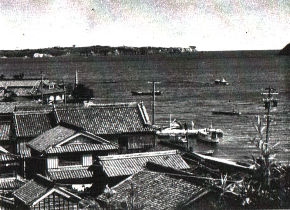 This is a landscape in Nagaoka village, Shima district, Mie prefecture, Japan.